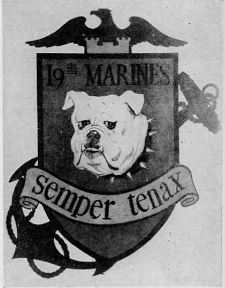 19th Marines Logo